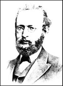 Image of Thomas R. Allison from The Allinson Vegetarian Cookery Book